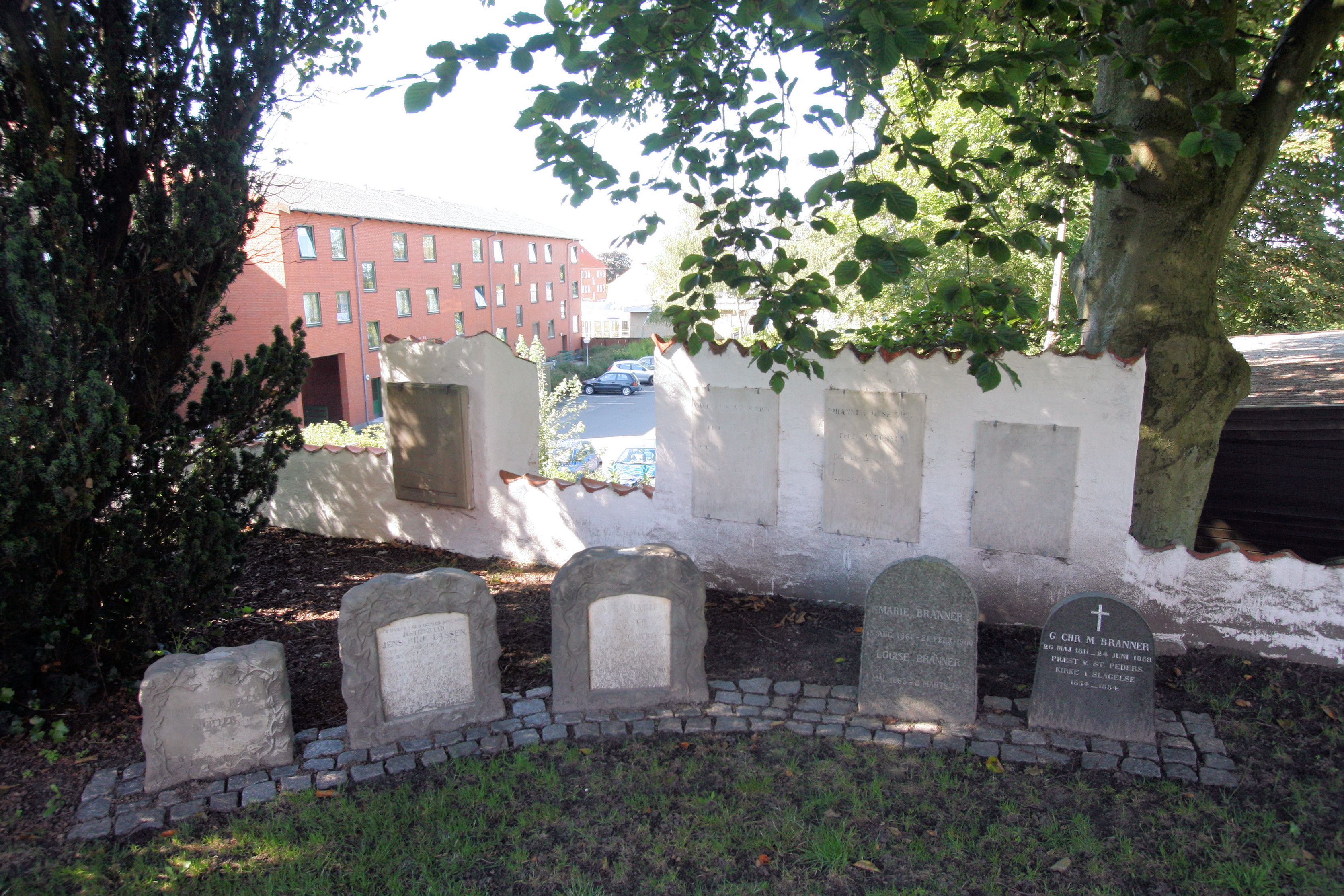 Sankt Peders Kirke in Slagelse, Denmark. Gravestones in the southwest corner of the churchyard